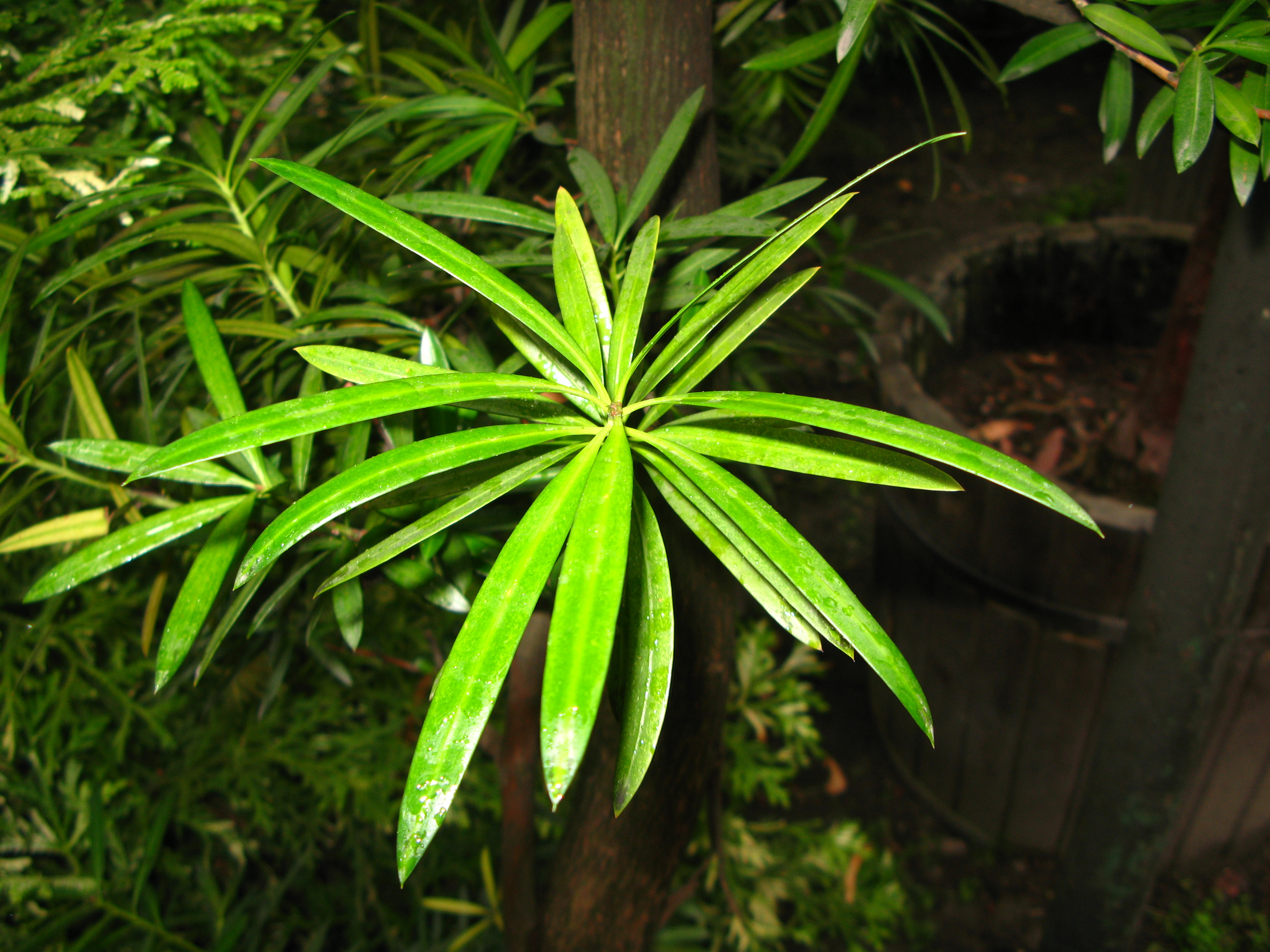 Podocarpus neriifolius in Botanical garden in Kraków